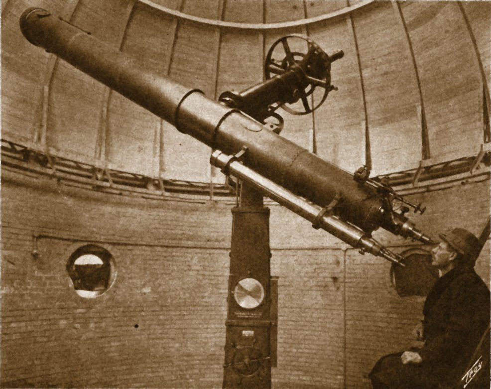 Cornell Astronomy Professor, Samuel Boothroyd, looks through the recently completed Irving Porter Church Memorial Telescope at Fuertes Observatory in 1923.